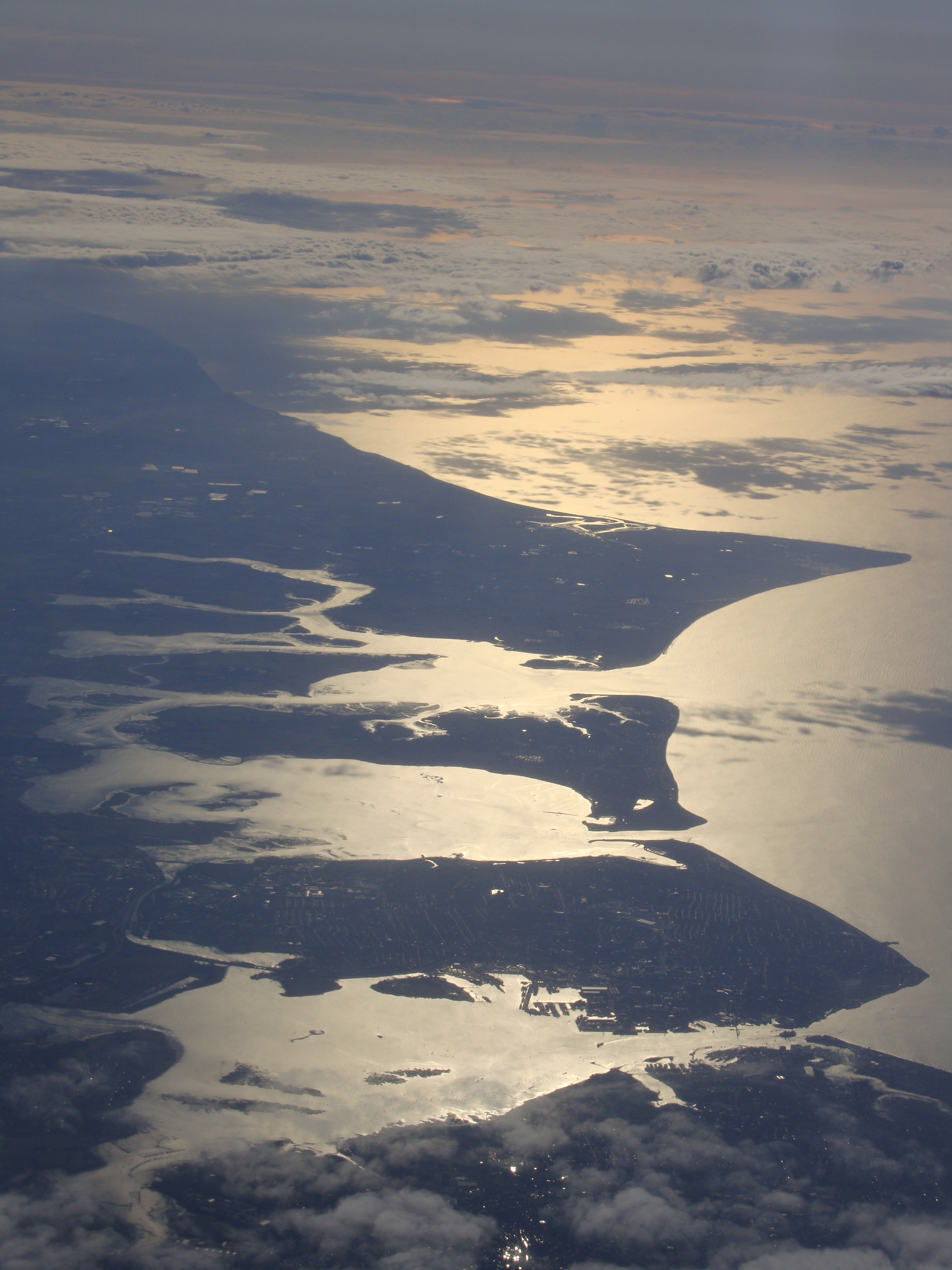 Photograph of Selsey Bill, Hayling Island and Portsea Island from the air